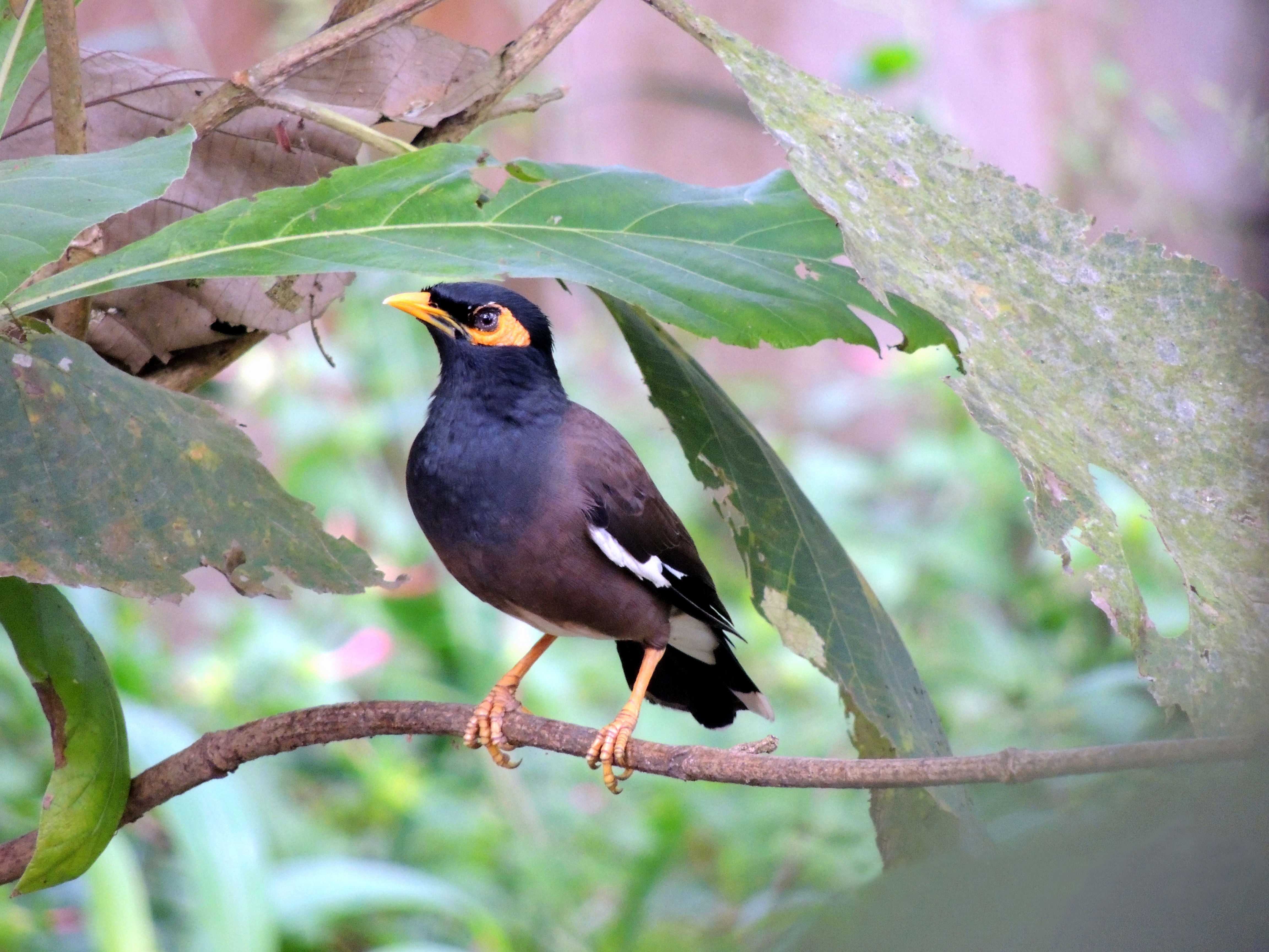 Common Mynah on a tree. Kollam, Kerala, India.